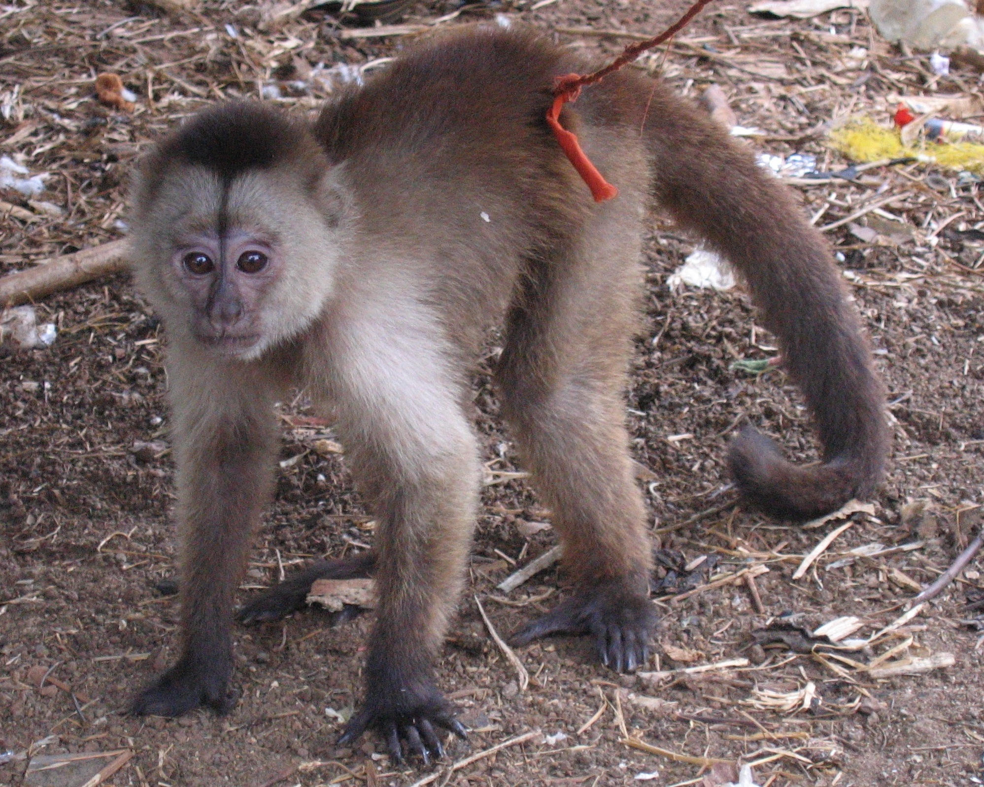 A captive Wedgecape capuchin monkey in a French Guyana indian tribe.